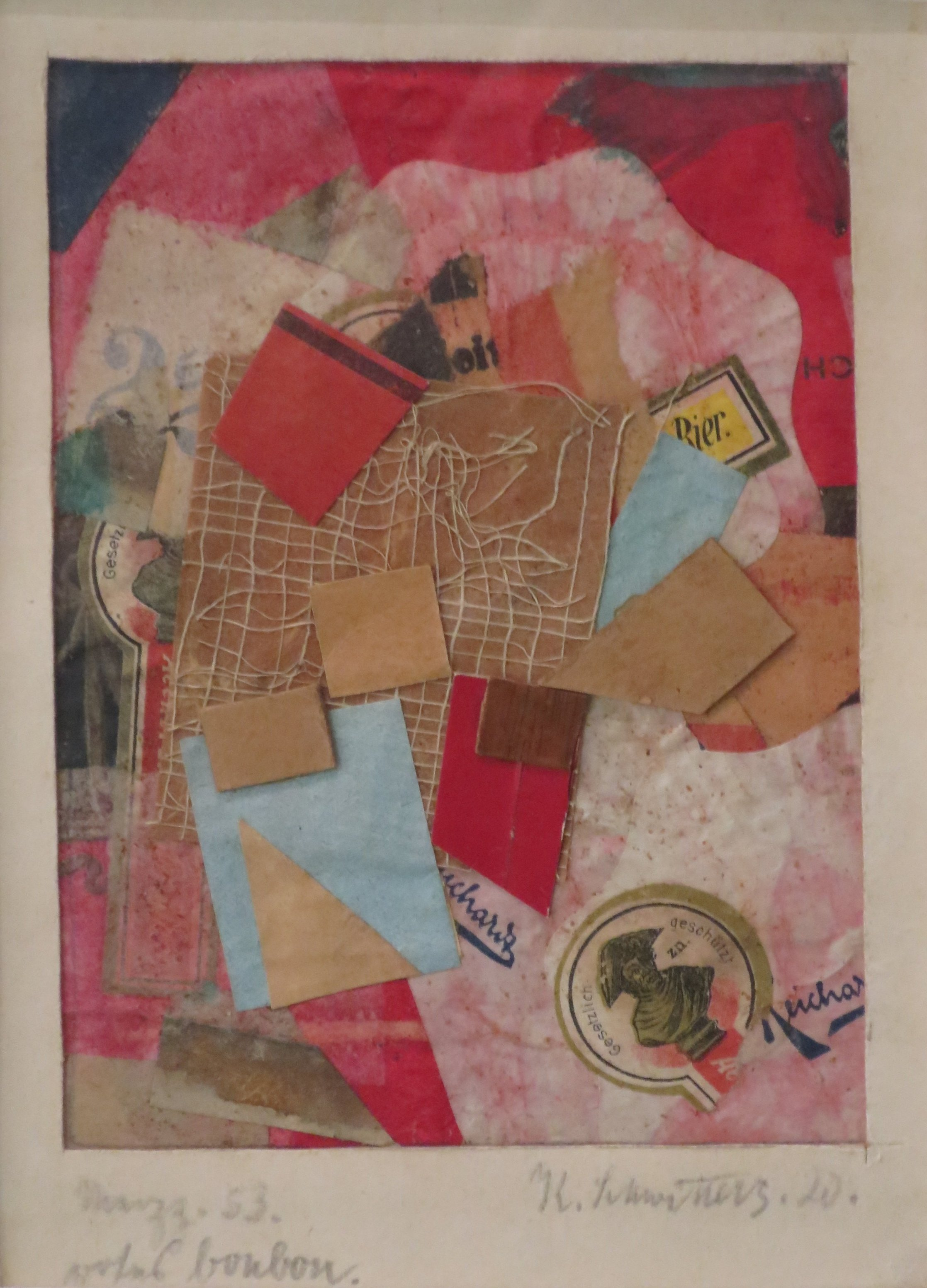 Merzz. 53. Red Bonbon by Kurt Schwitters, 1920, graphite, colored and printed paper, cardstock, and thread collage with cardstock border, 5 1/16 x 3 13/16 inches (12.8 x 9.7 cm), Solomon R. Guggenheim Museum